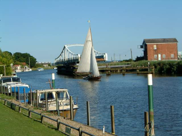 Reedham Swing Bridge This image was taken, with permission, from the Wherry Lines website (external link).